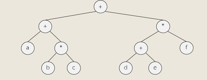 เป็นตัวอย่างต้นไม้นิพจน์ของ (a+(b*c)) + ((d+e)*f)